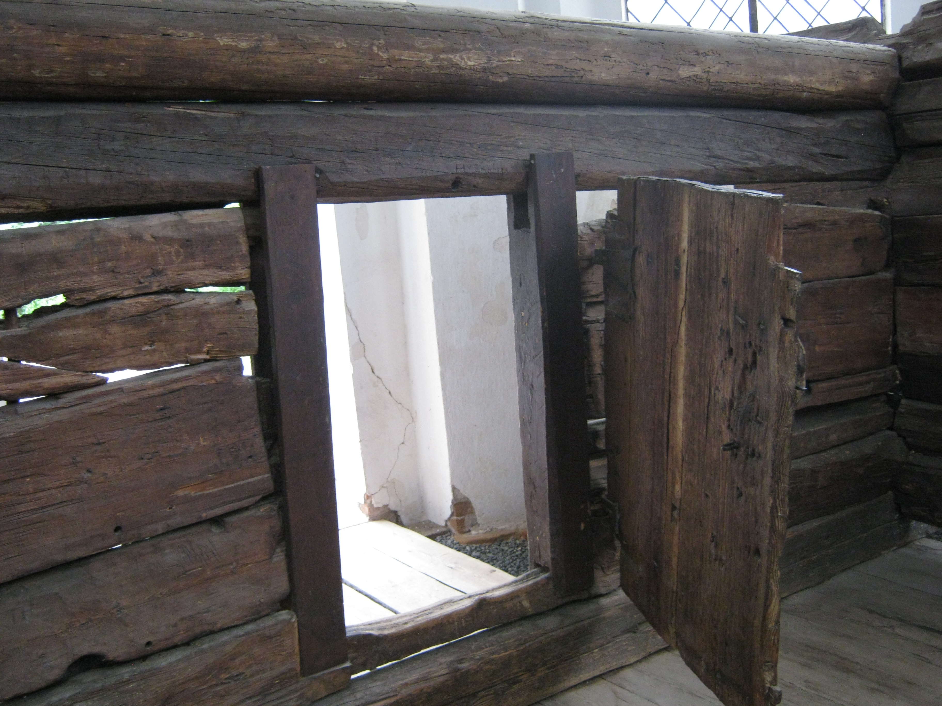 St. Henry's Chapel, Kokemäki, Finland.